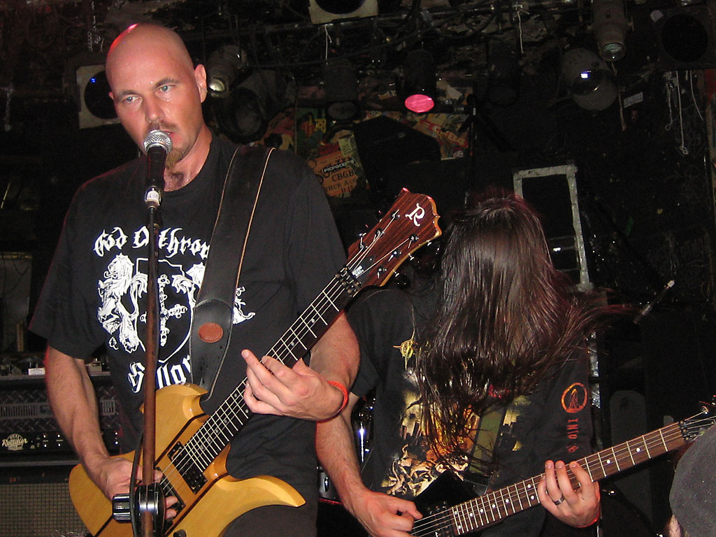 God Dethroned